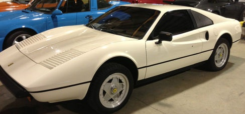 Pontiac Fiero equipped with a Ferrari 308-lookalike fibreglass body.